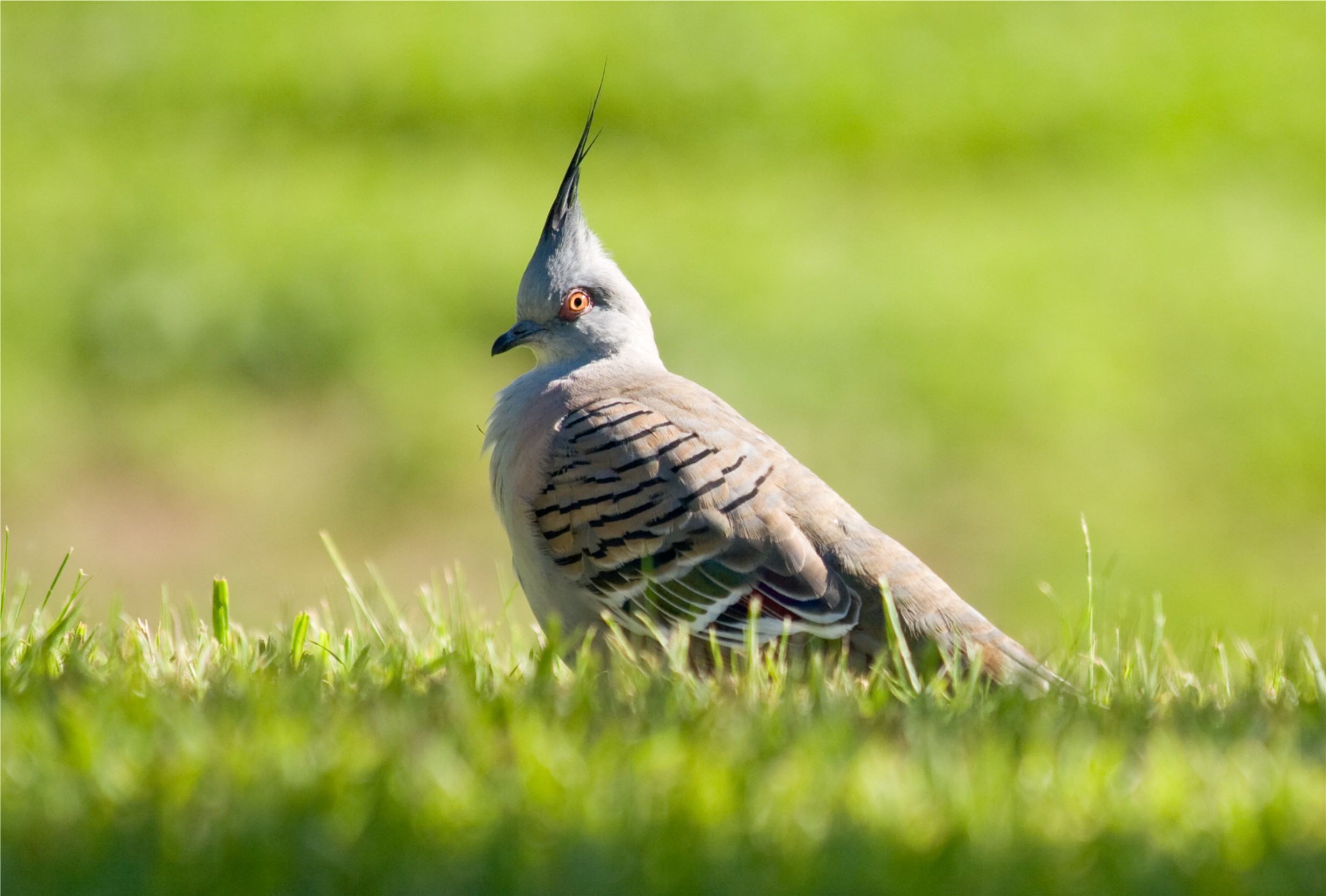 Crested Pigeon (Ocyphaps lophotes) in Narrabri, New South Wales